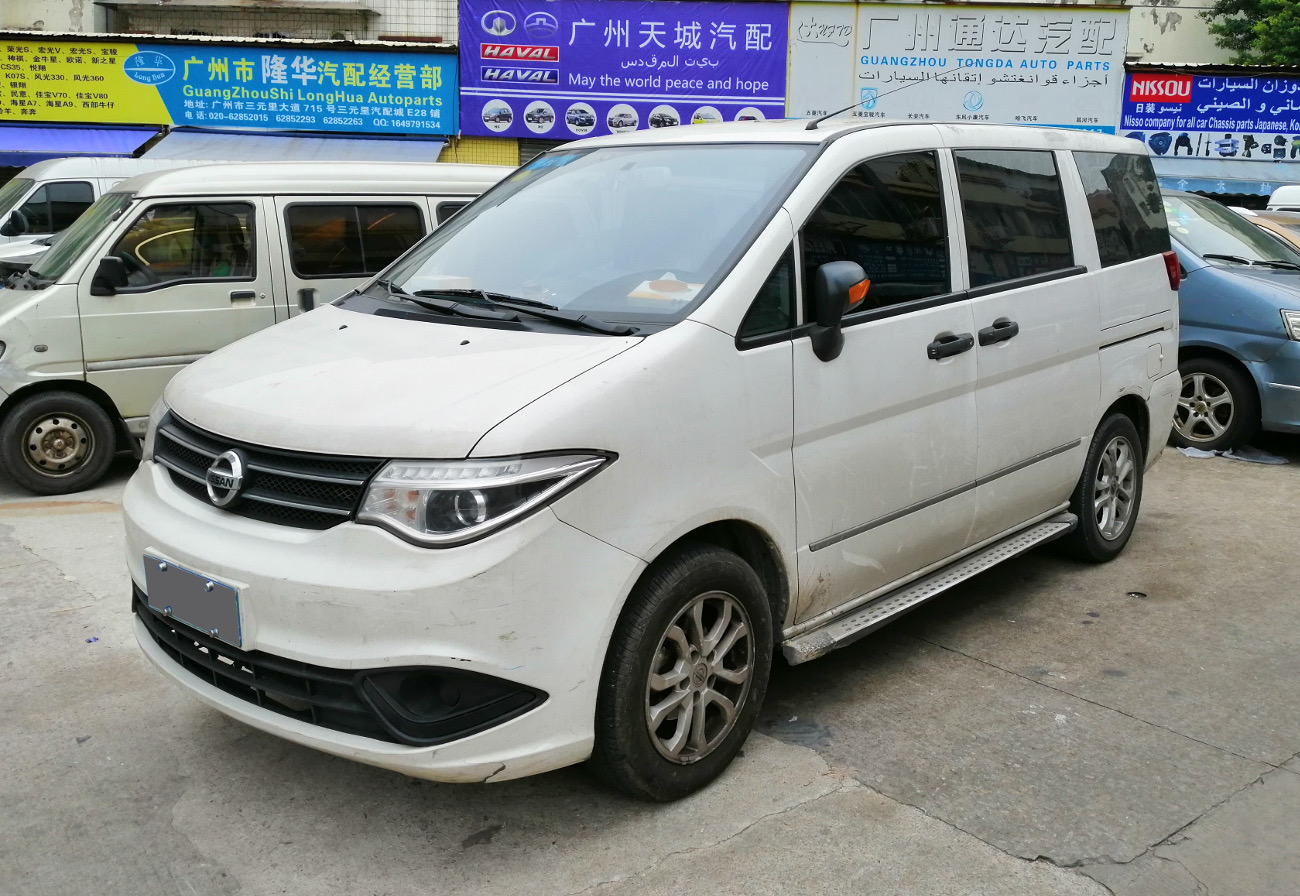 Dongfeng Succe facelift photographed in Guangzhou, Guangdong province, China.